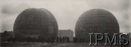 Początek lat 30., Warszawa, Polska.Balony kuliste o pojemności 1200 m³ na Polu Mokotowskim w Warszawie. Widoczny na zdjęciu balon „Wilno” był pierwszym polskim balonem o pojemności 1200 m³.